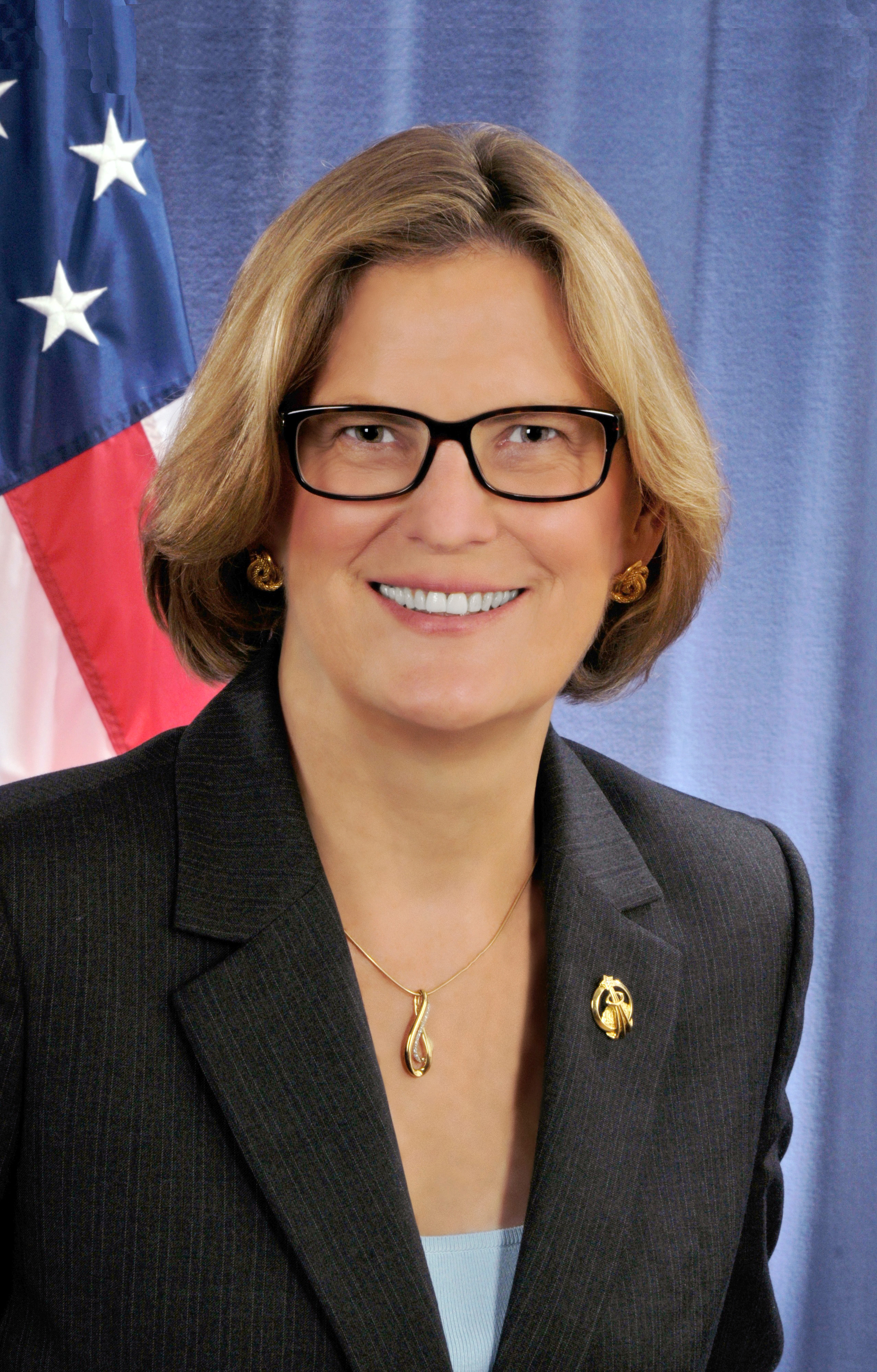 Dr. Kathryn D. Sullivan as Acting Under Secretary of Commerce for Oceans and Atmosphere and Acting NOAA Administrator